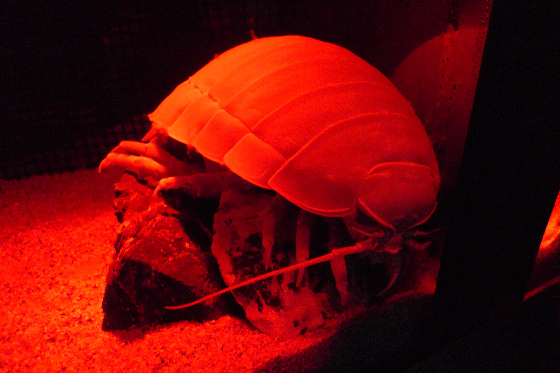 Bathynomus giganteus, Toba Aquarium, Toba city, Mie pref, Japan